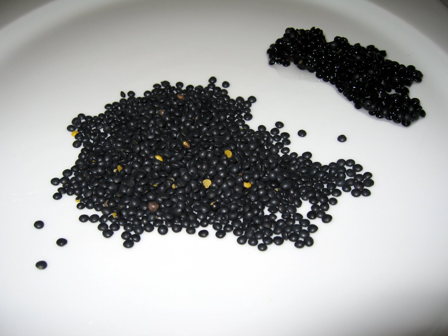 Black Beluga lentils